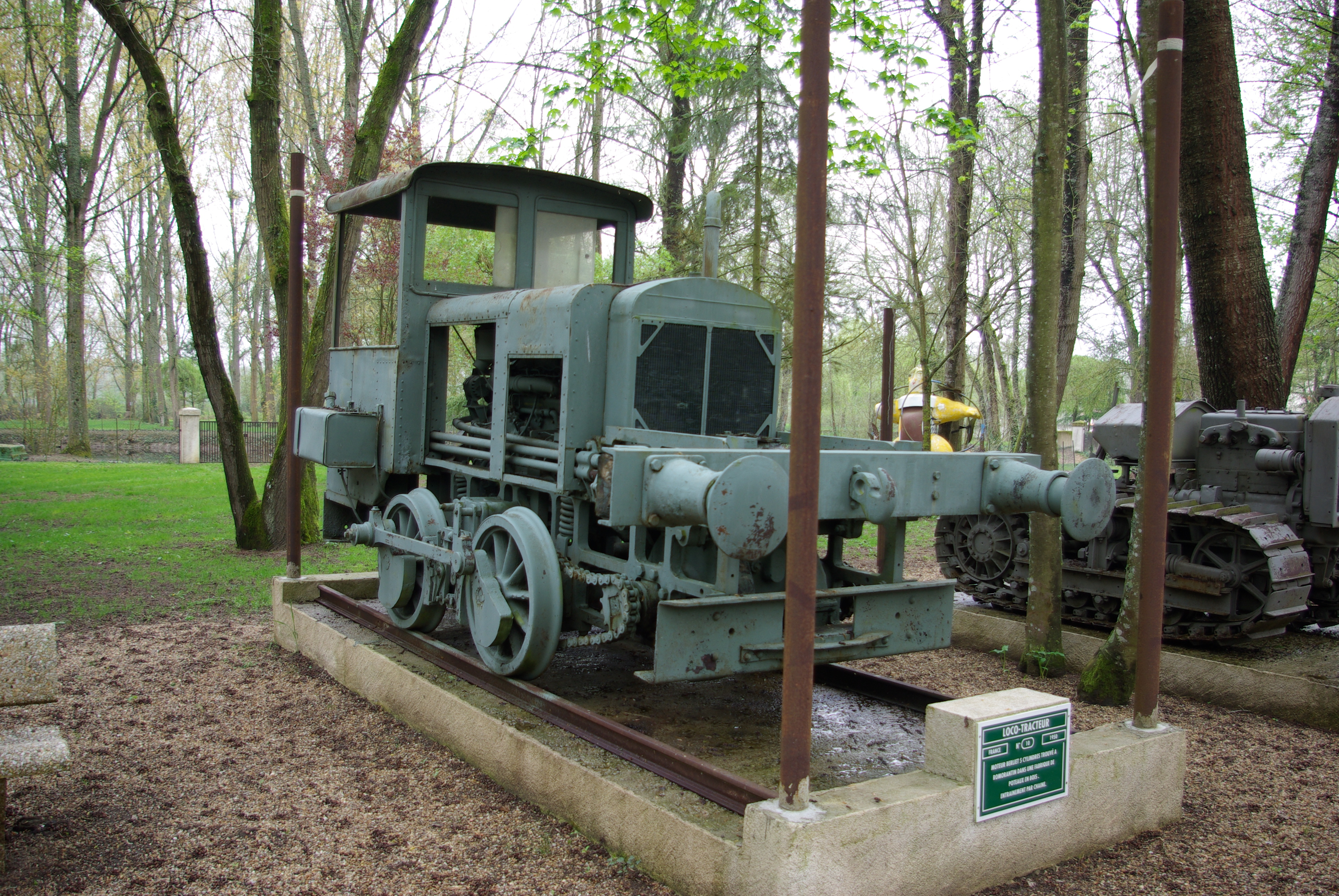 Road switcher with a 5-cylinders engine made by Berliet (1950). Exhibited in museum Maurice Dufresne (Azay-le-Rideau, Indre-et-Loire, France).